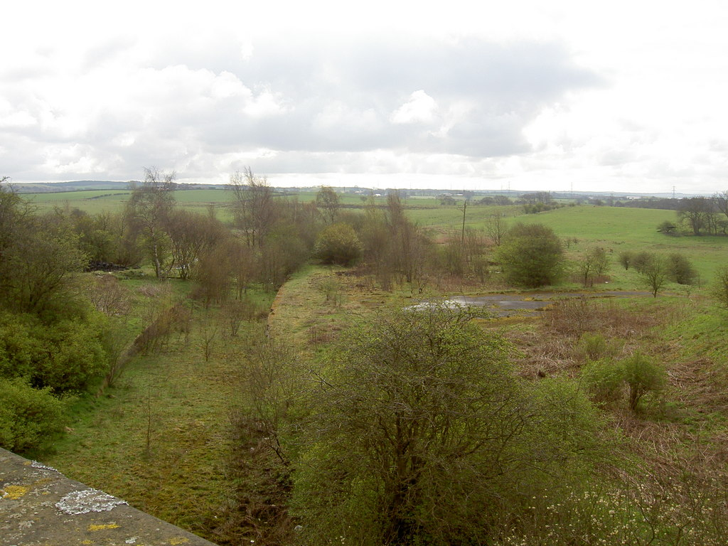 Newhouse Railway Station (Abandoned)